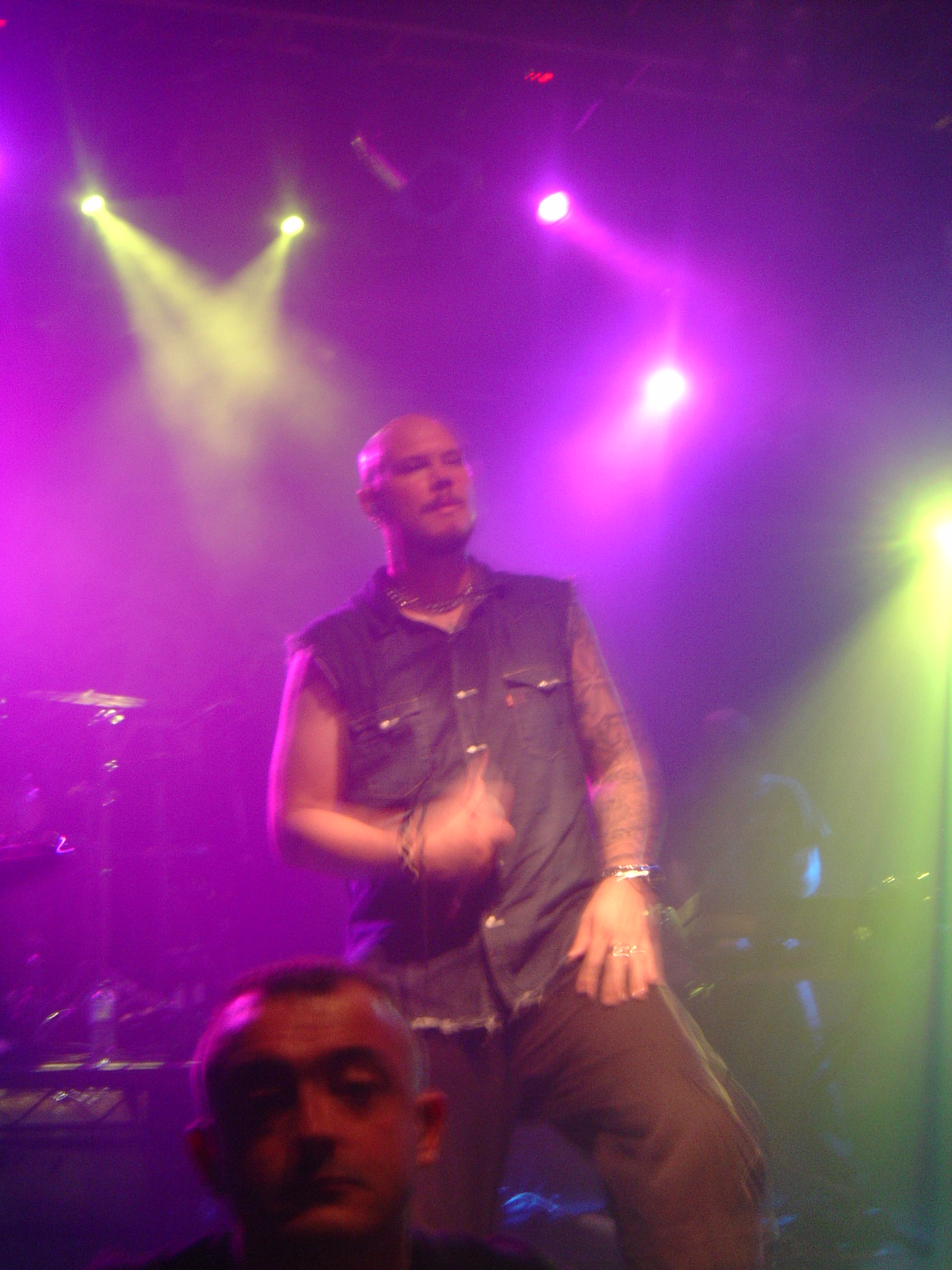 Swedish singer Bjorn "Speed" Strid, a heavy metal musician with bands such as Soilwork, Disarmonia Mundi, and Terror 2000.Speed